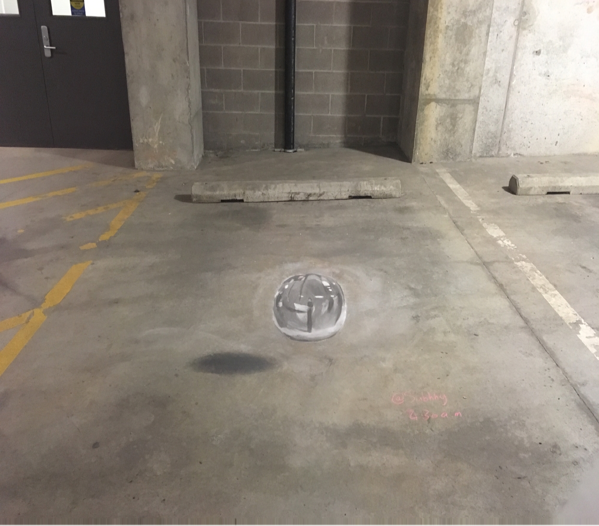 My own chalk drawing in CMU's garage.